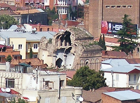 A closeup of the ruins of the 18th century Armenian Church of the Red Gospel in the Havlabar district of Old Tbilisi.